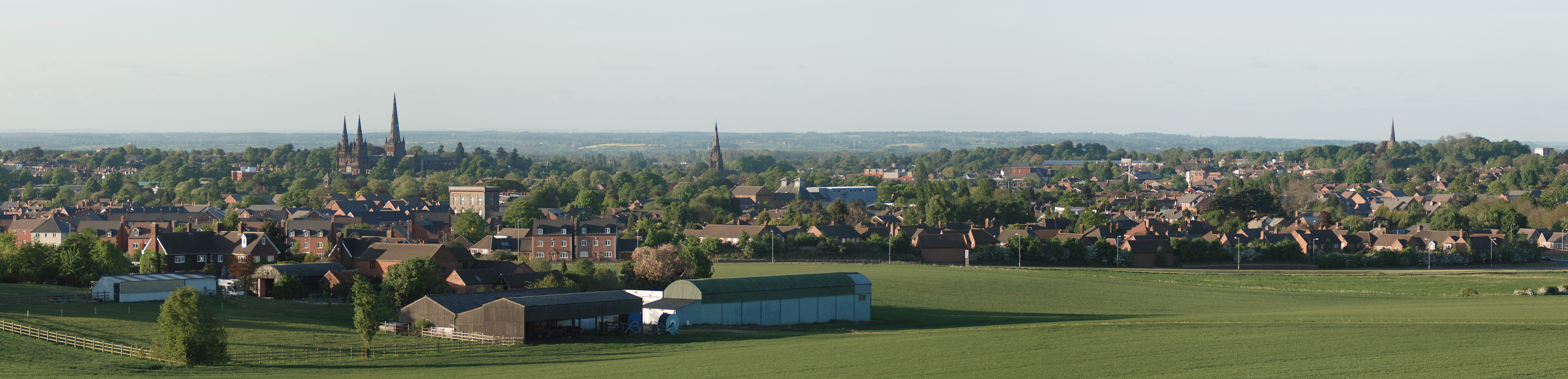 View of Lichfield, Staffordshire from Harehurst Hill, Dean Slade Farm in the foreground.